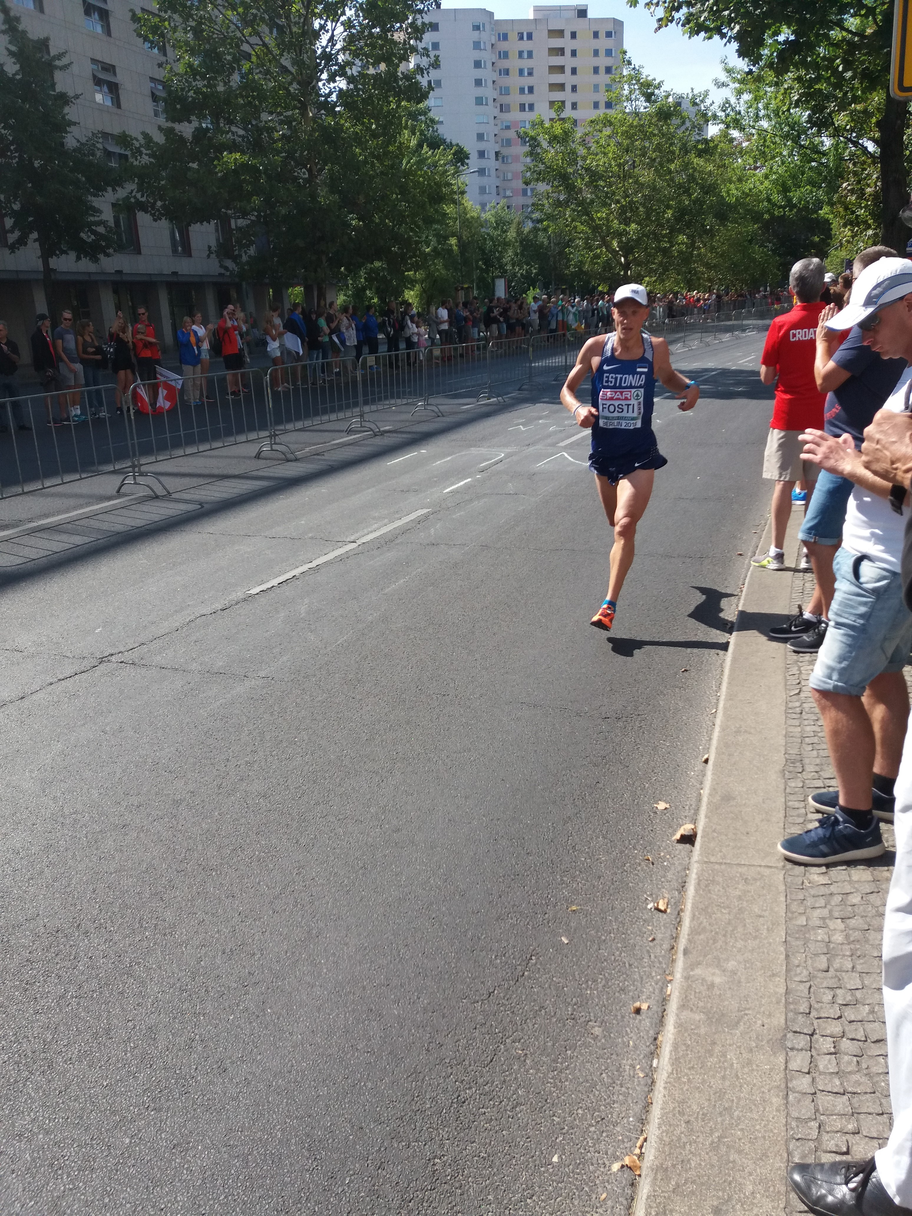 Marathon at the 2018 European Athletics Championships – Roman Fosti